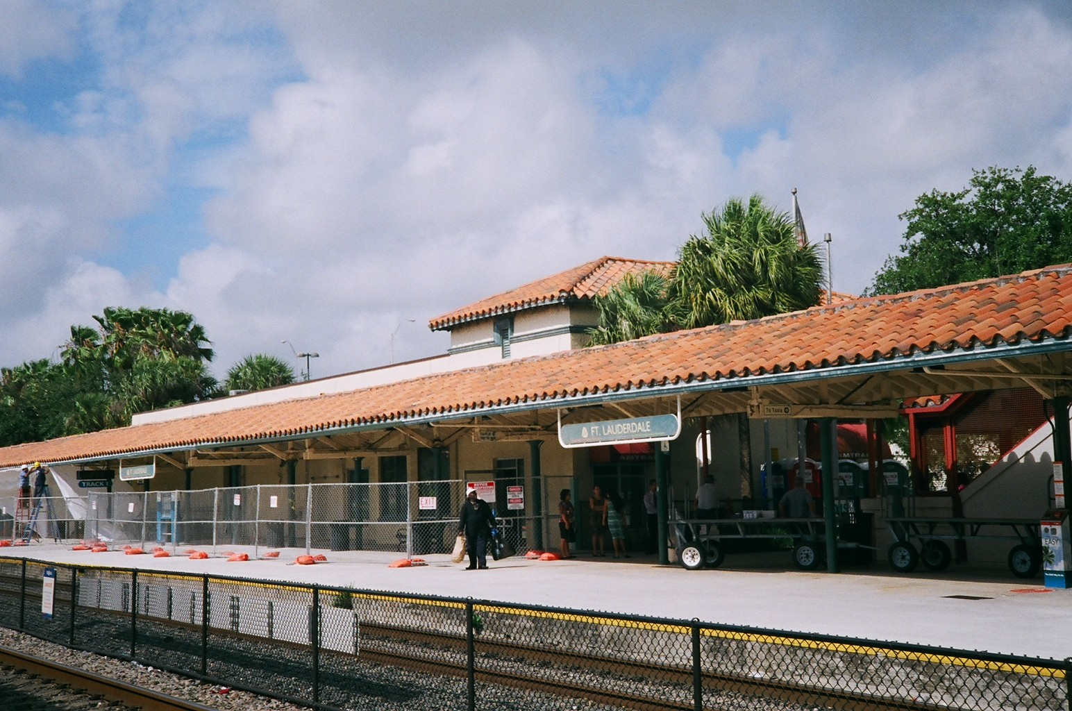 refurbishment of the Fort Lauderdale train station (served by Amtrak and Tri-Rail; a temporary ticket office had been installed)